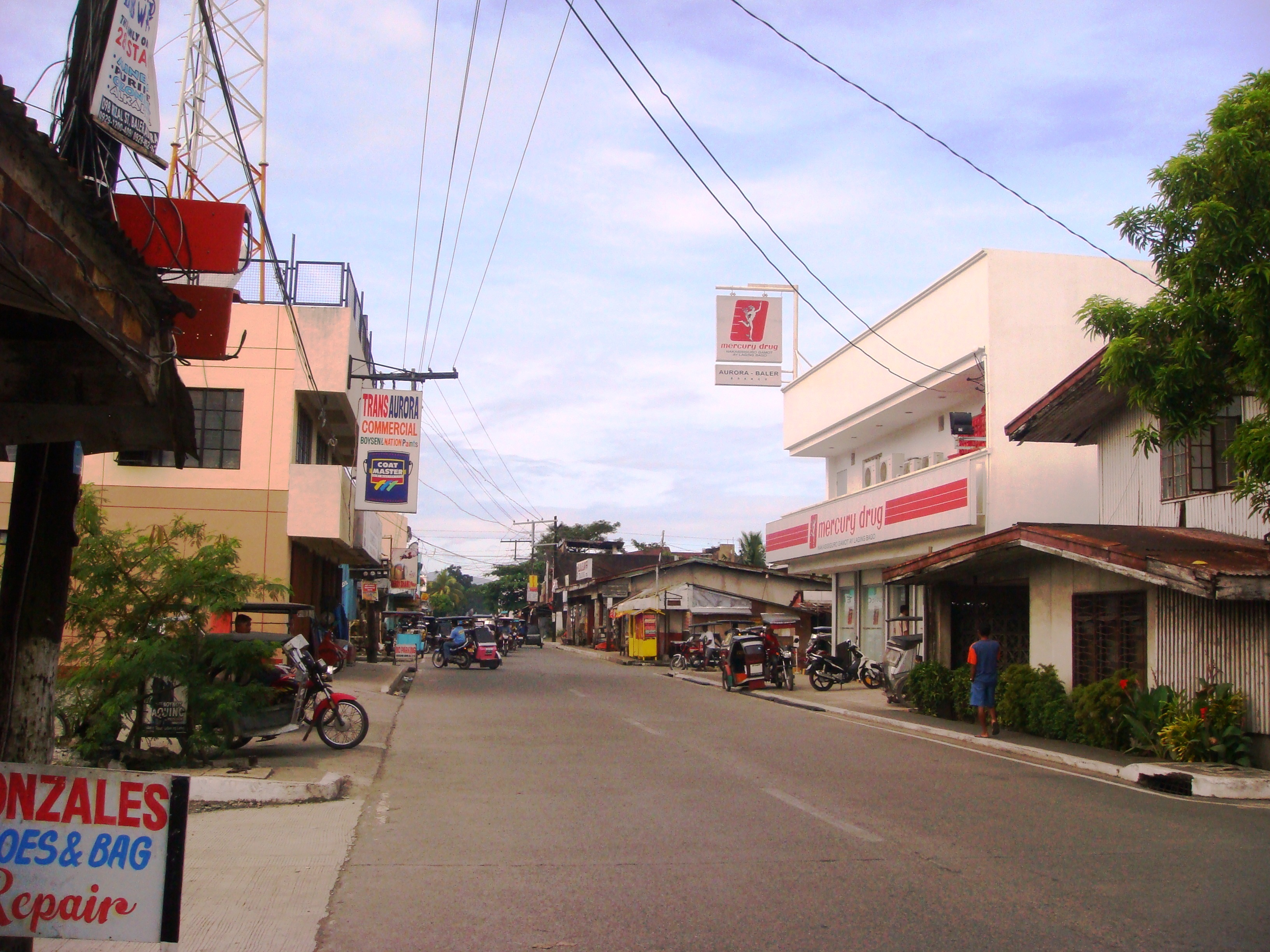 Downtown, Brgy. 2, Poblacion, Baler, Aurora.